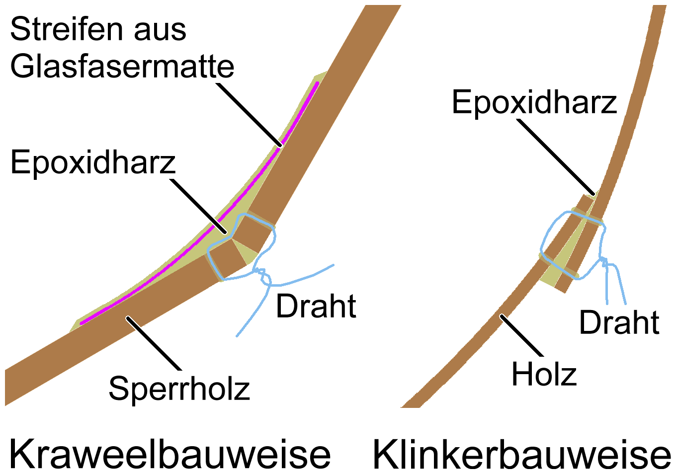 Stitch and glue joint